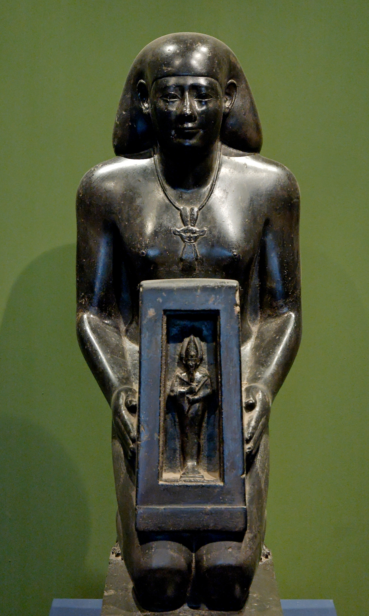 Kneeling naophorus, statue of Uah-Ib-Ra Mery-Neith, 19th–20th Dynasties.